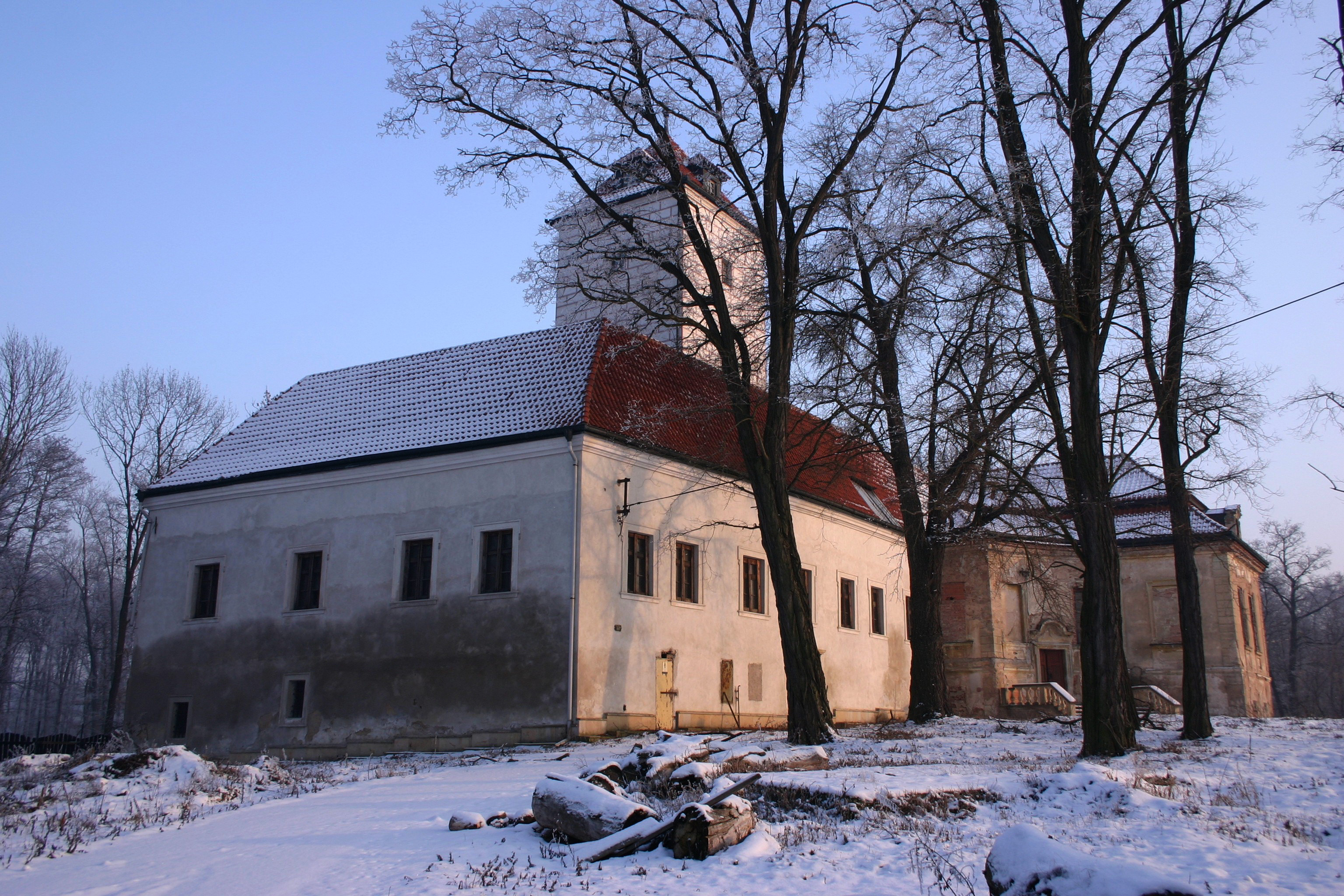 Lobkovice Castle in Winter